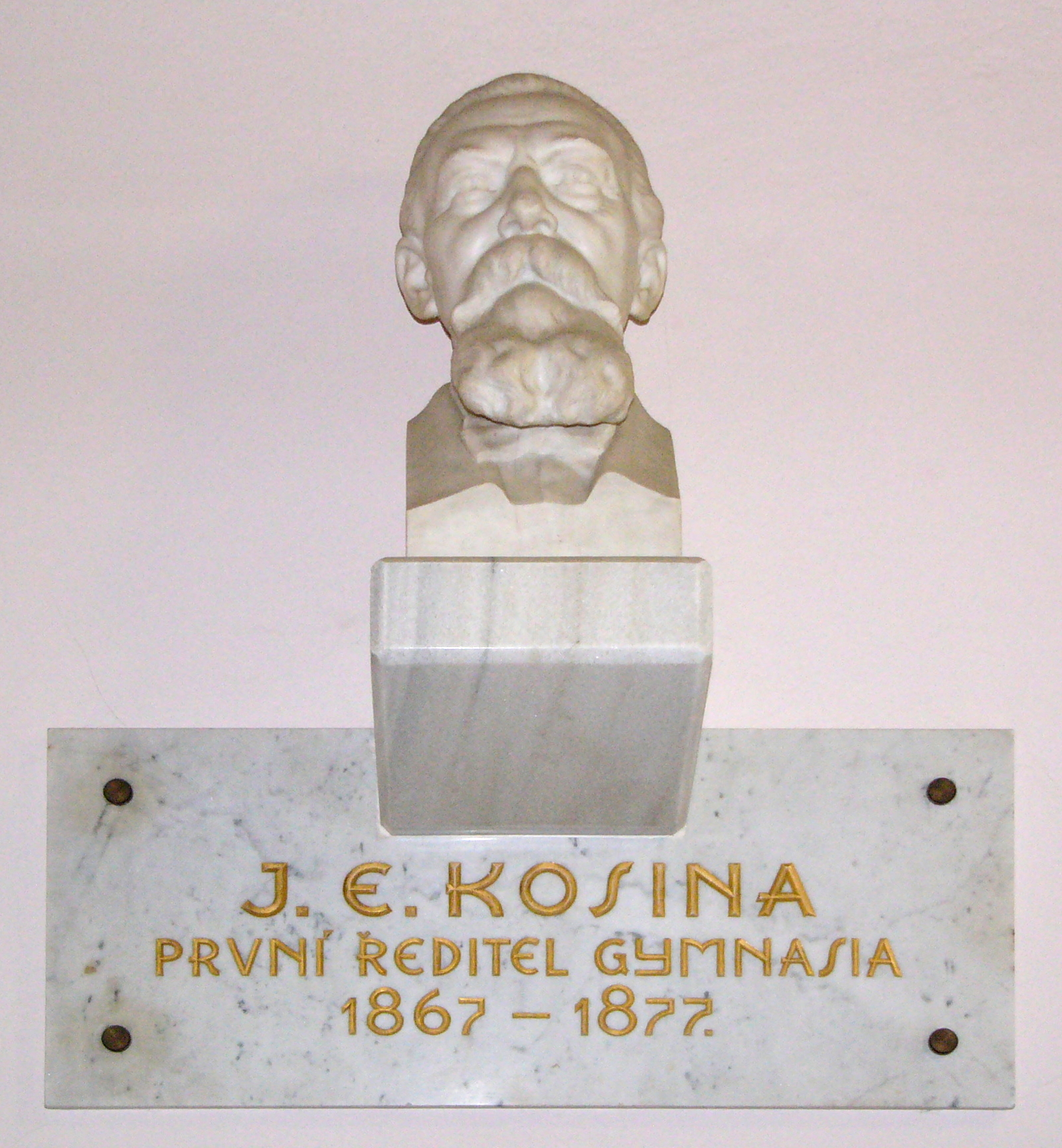 Bust and memorial plaque of Jan Evangelista Kosina in house at Kosinova street in Olomouc (Czech Republic). It was made by Julius Pelikán in 1927. There is written on the plaque in the Czech language: J. E. Kosina first director of the grammar school 1867 — 1877